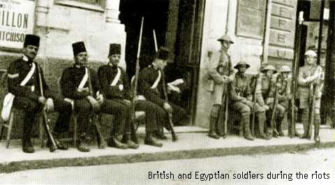 Egyptian and British soldiers on standby in Cairo during the anti-British riots of 1919. Egypt, occupied by the British since 1882, was officially a British protectorate from 1914 to 1922.